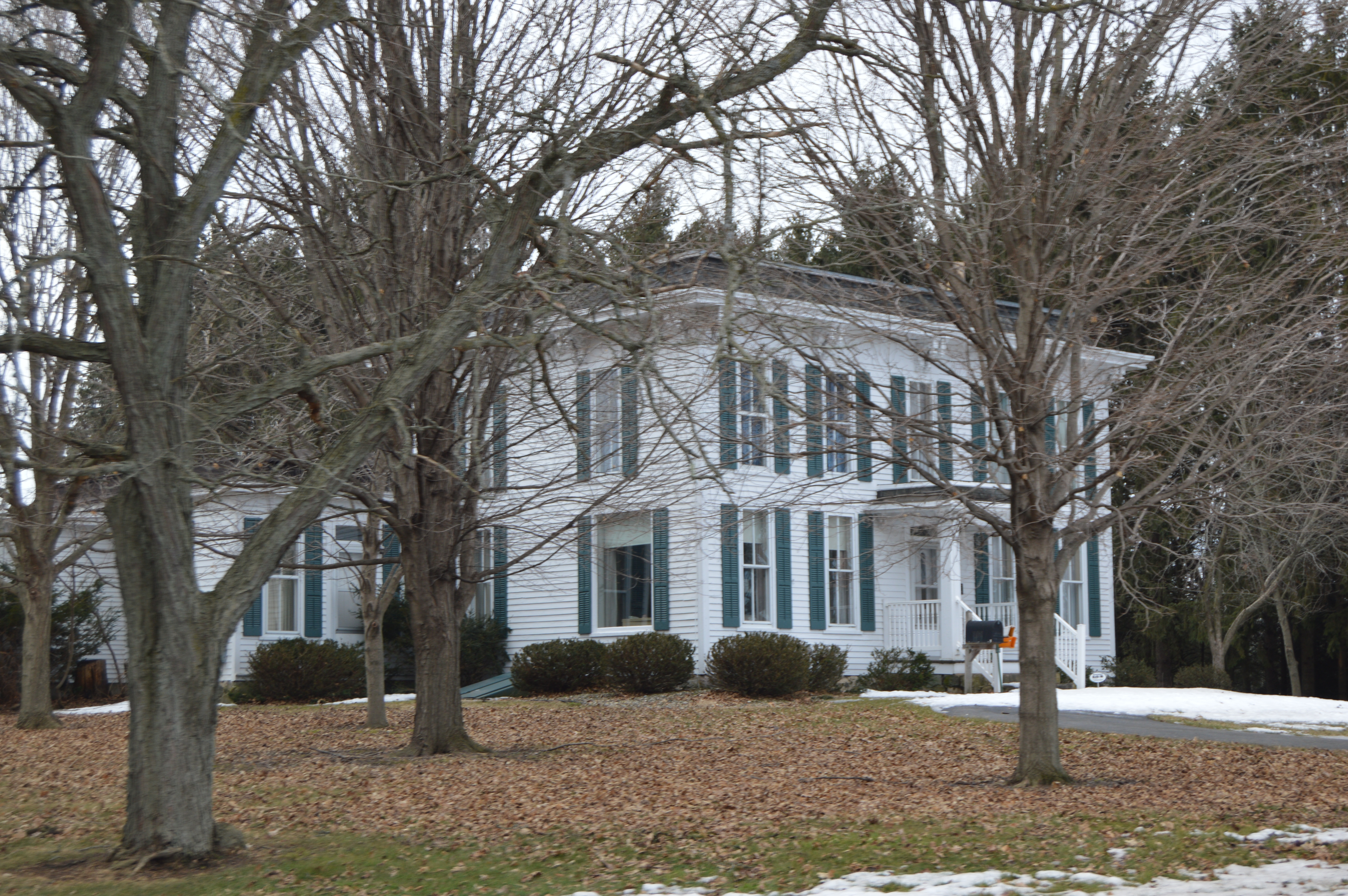 Eastern side and front of the Gaskill-Erwin Farmhouse, located at 2595 14-B Road south of Bourbon in Tippecanoe Township, Marshall County, Indiana, United States. Built in 1879, it is listed on the National Register of Historic Places.